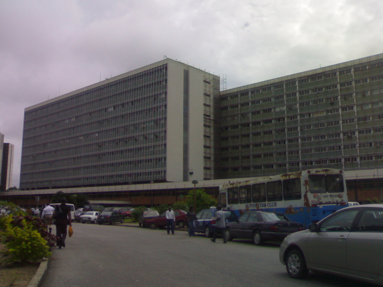 One of the State Secretariat buildings in Port Harcourt